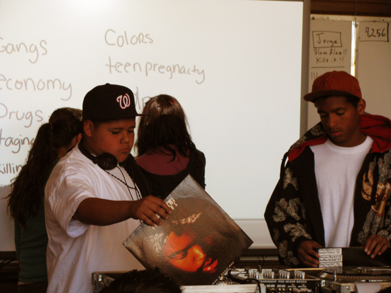 Quilombo workshop, California 2009